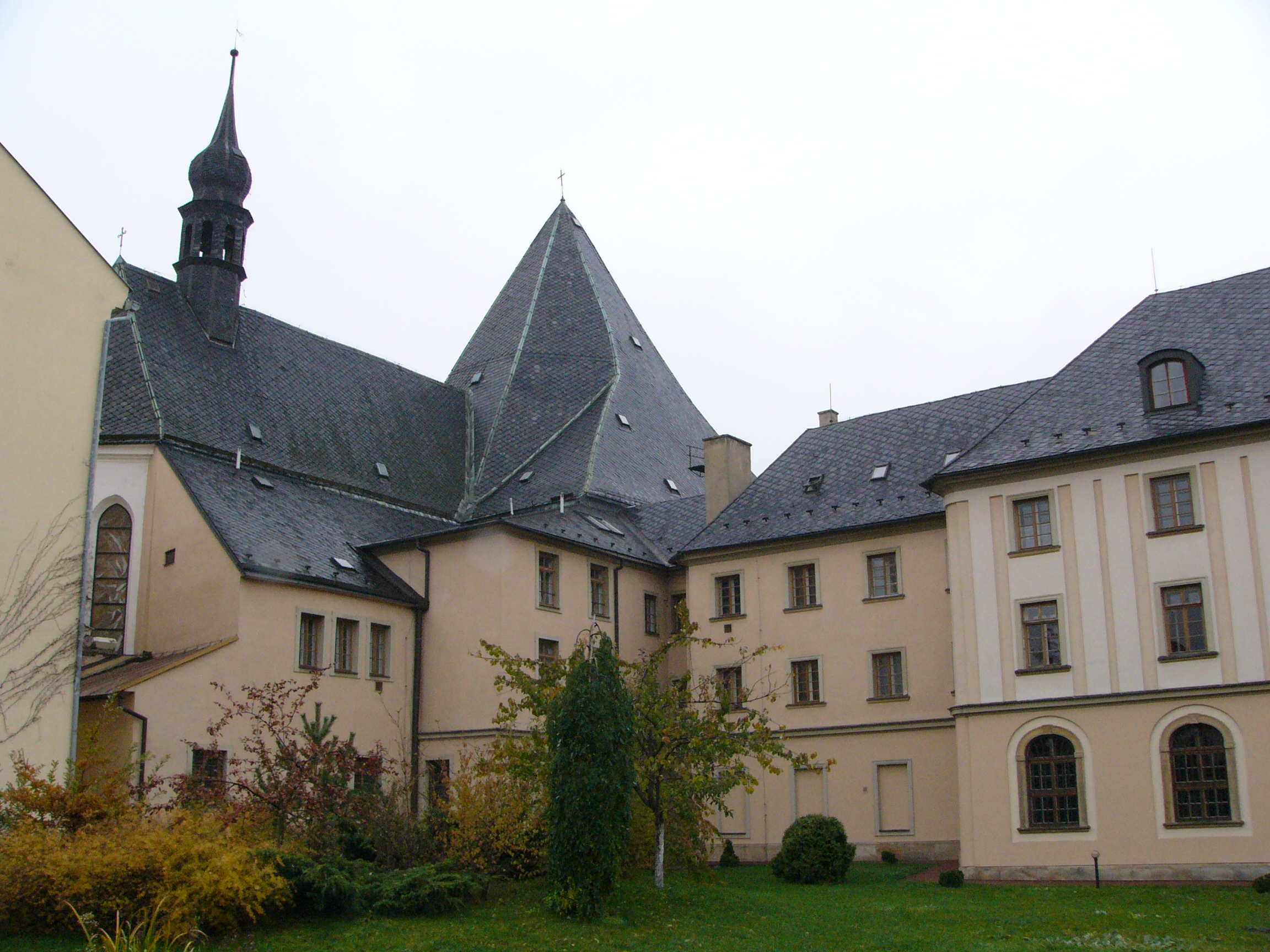 Garden near Church of Immaculate Conception of Virgin Mary in Olomouc (in